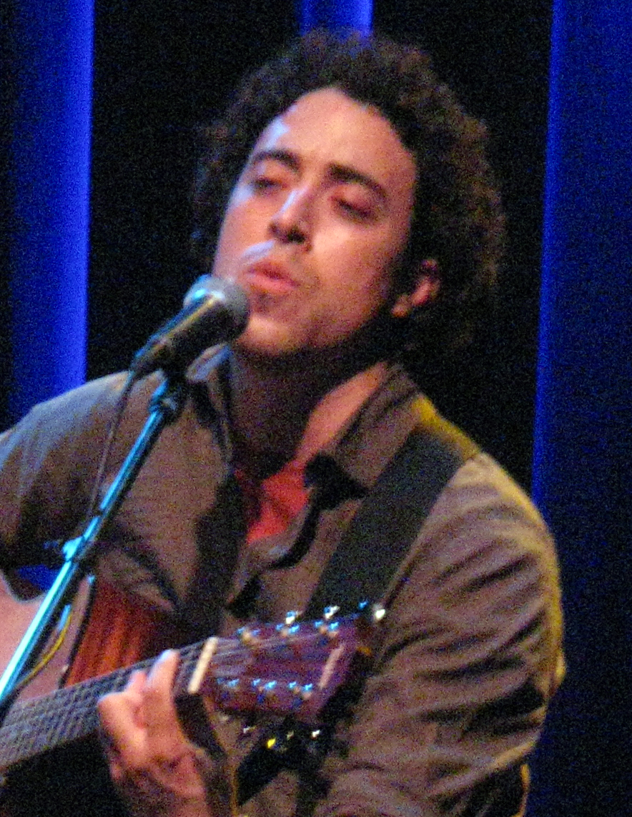 Ernie Halter performing in Birmingham, Alabama in 2008.